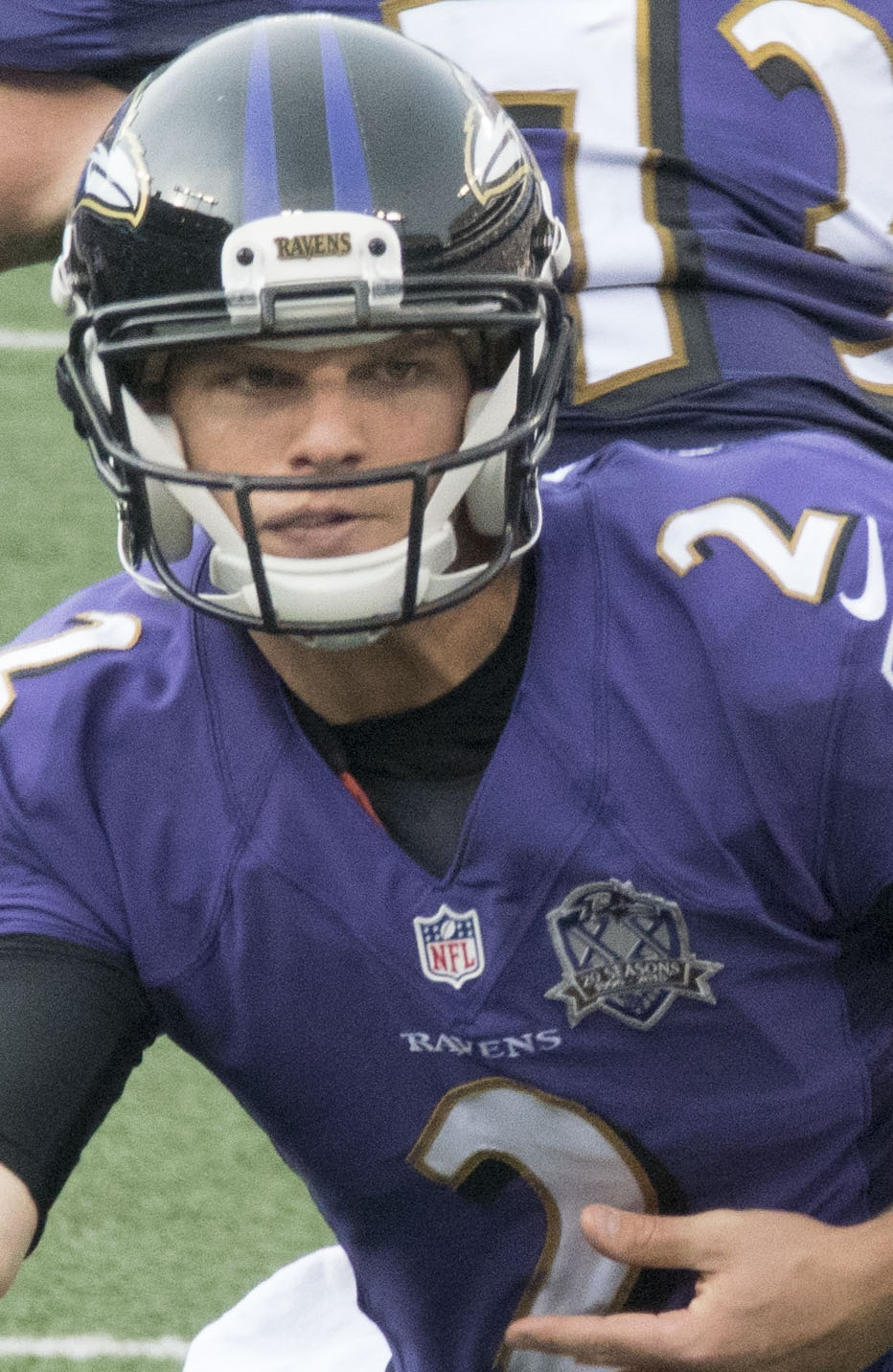 Seahawks at Ravens 12/13/15